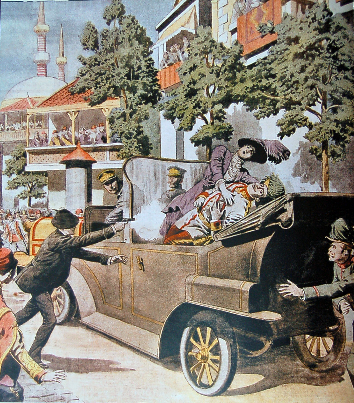 Assassination of Archduke Franz Ferdinand of Austria (1863-1914) and his wife Sophie von Hohenberg (1901-1990), by a Serb, on 28 June 1914. Illustration from French newspaper Le Petit Journal. July 12, 1914.